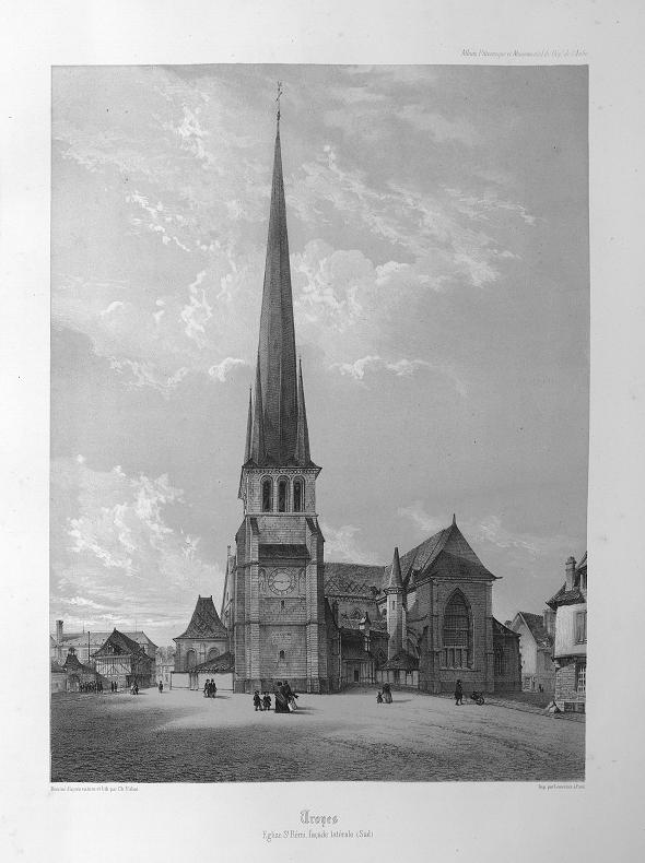 Old view of Saint-Rémy church (19th century), before the nartex's destruction.